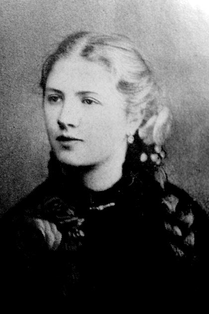 Russian writer and memoirist Lidia Alekseyevna Avilova